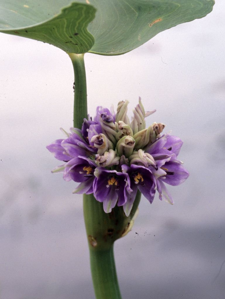 Monochoria hastata in Thailand (5 Sep. 2008). Credit: Udon.